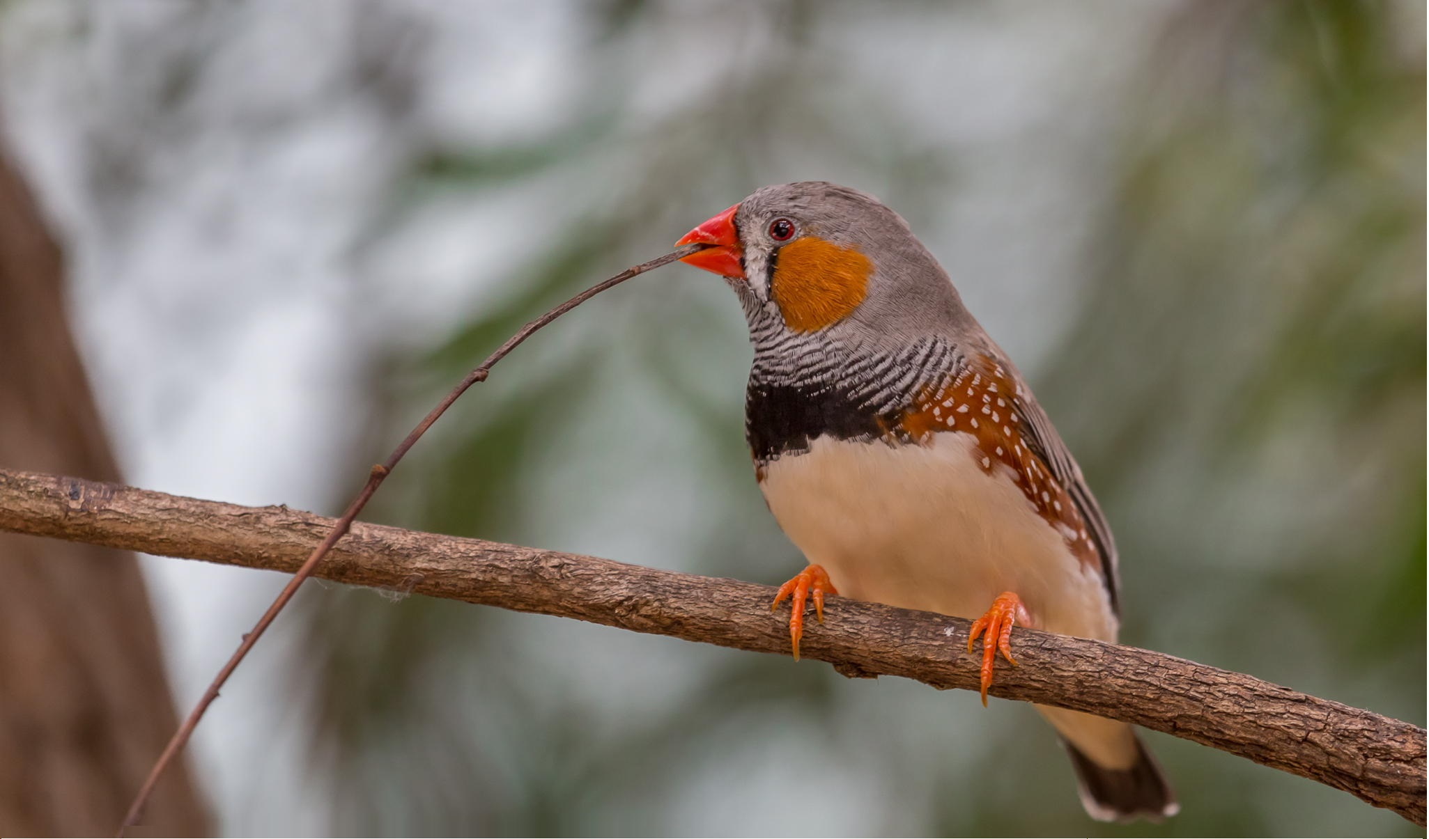 Zebra Finch Taeniopygia guttata, Condobolin NSW, Australia